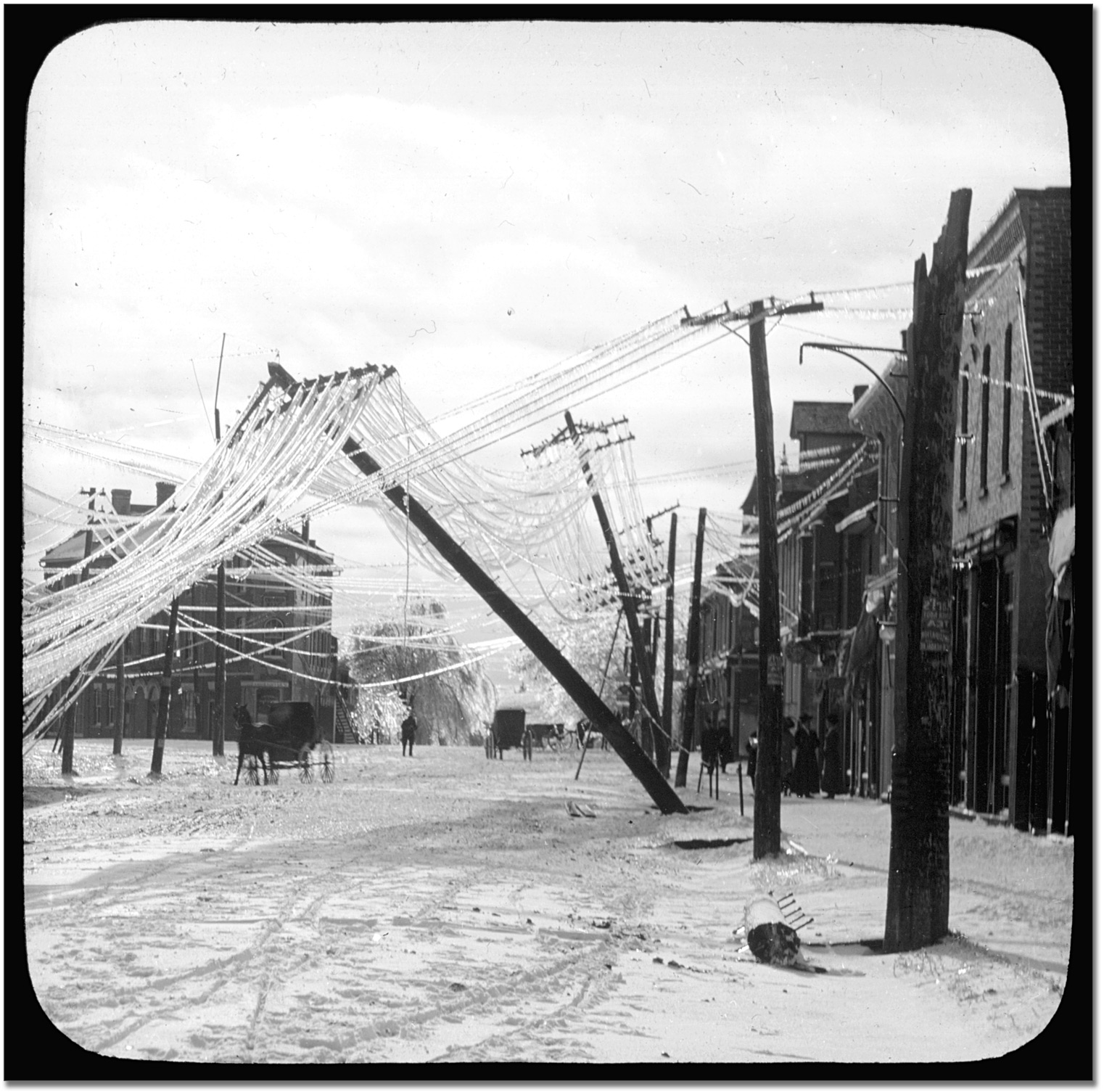 A street in Elora after an ice storm - frozen utility lines are pulled over by weight of ice.